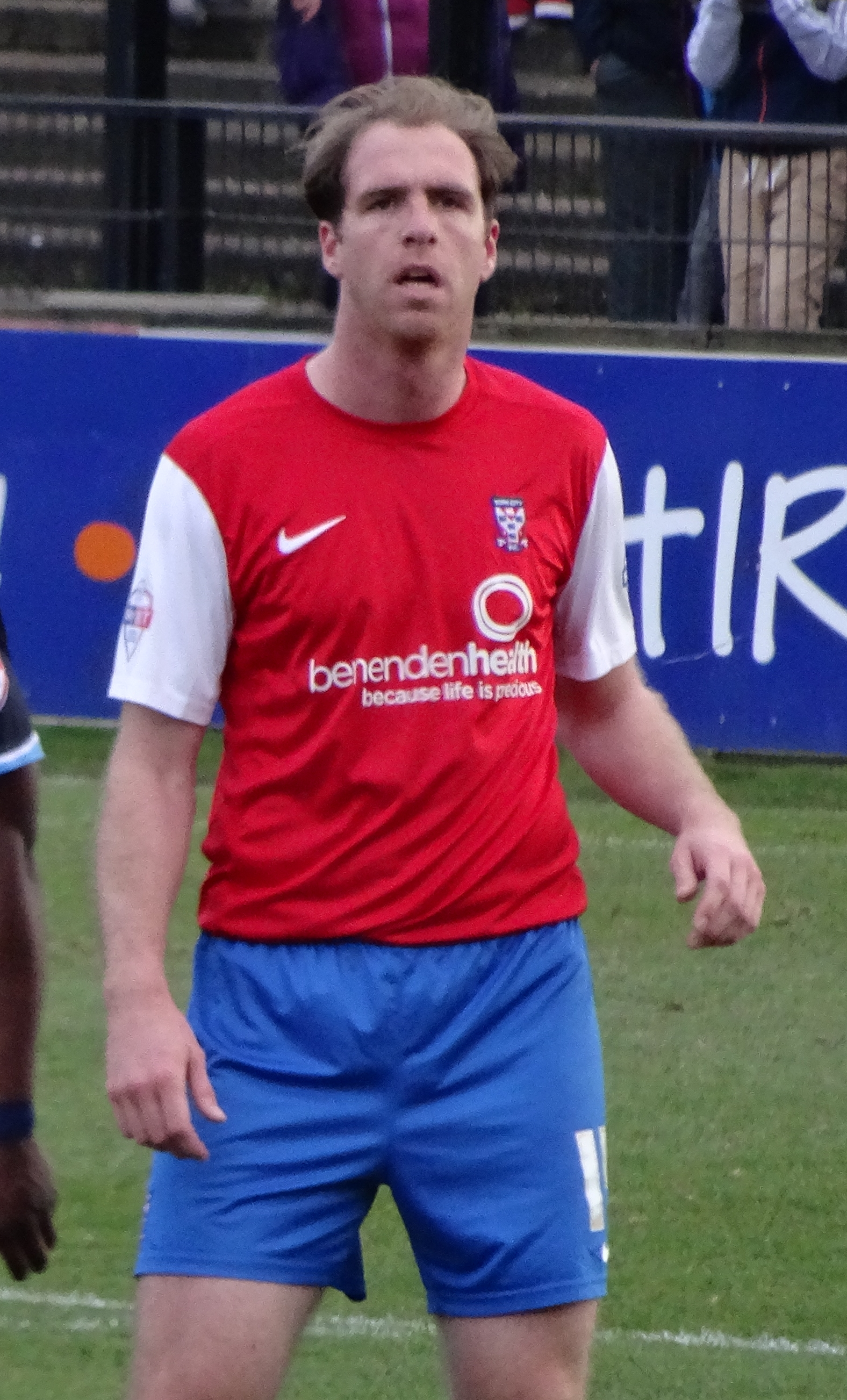 Keith Lowe playing for York City against Wycombe Wanderers at Bootham Crescent, York on 15 March 2014